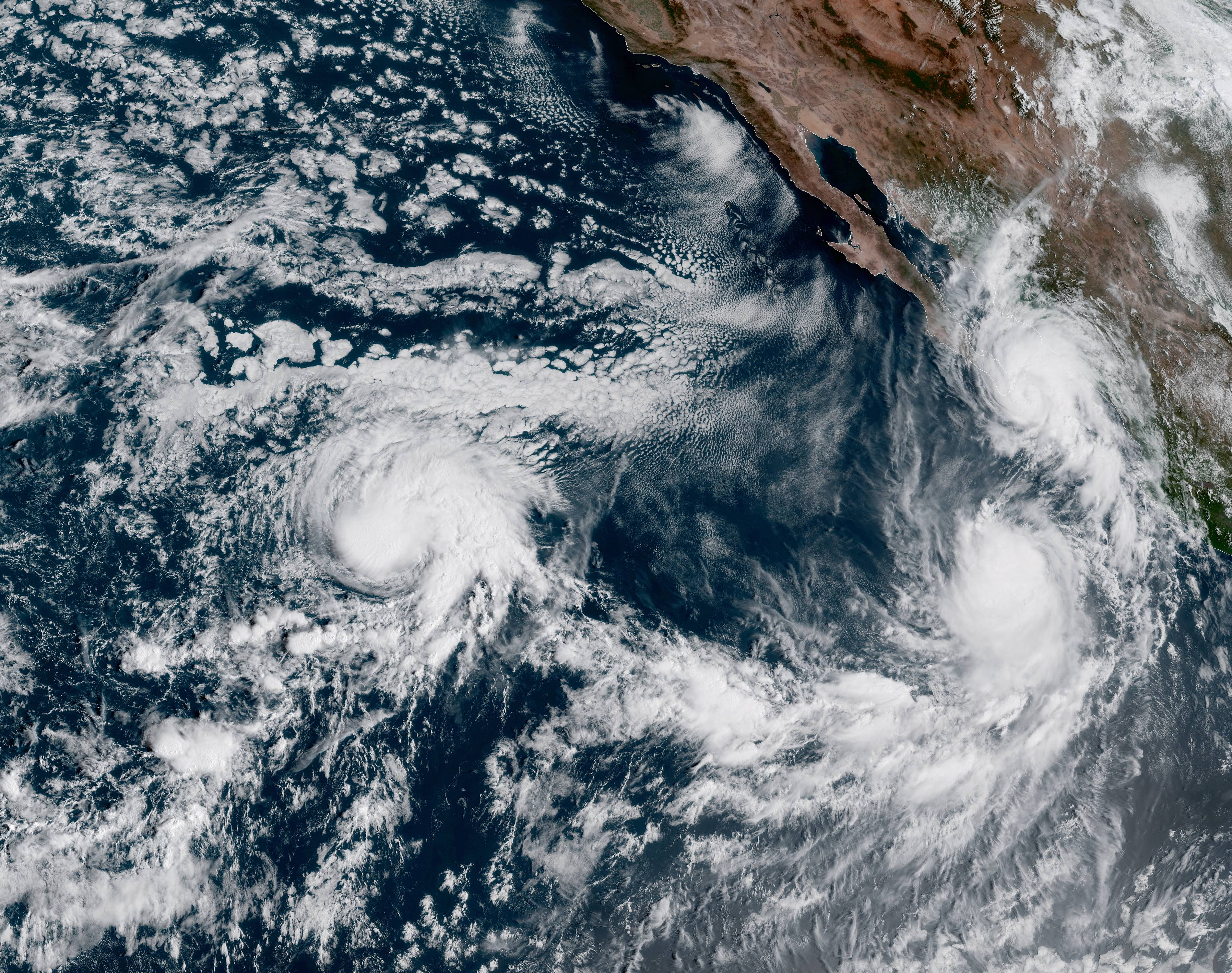 Tropical storms Kiko and Mario and Hurricane Lorena on September 20, 2019